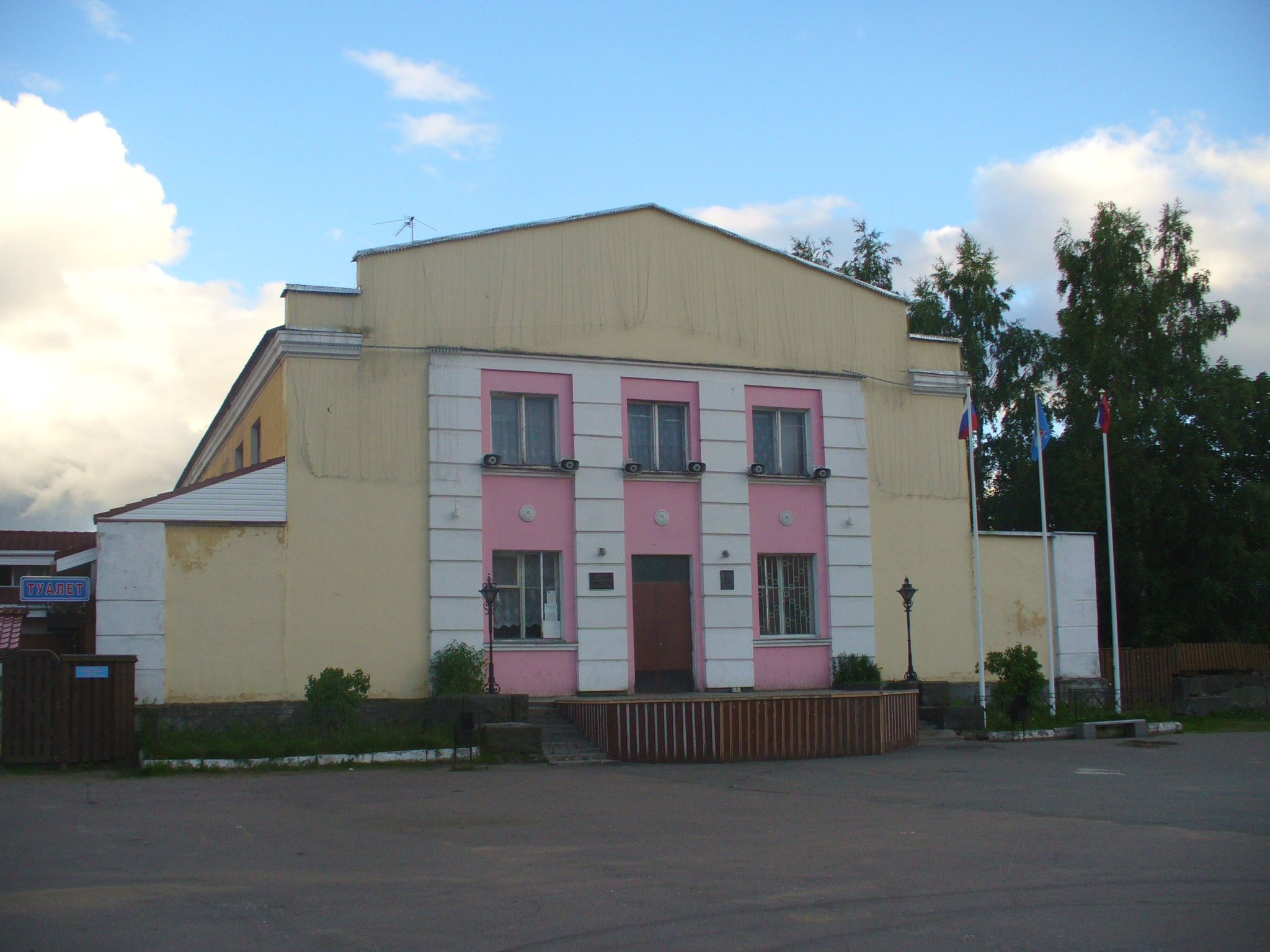 Cultural centre in Sosnovo, Leningrad oblast, Russia